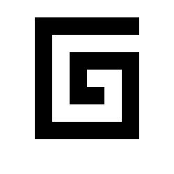 pyramidal system